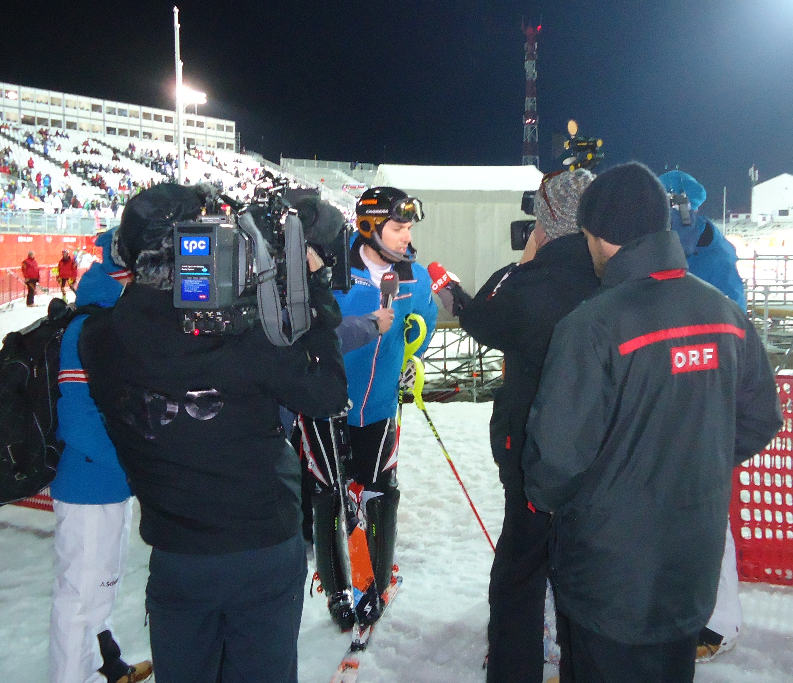 Mario Matt gives interview to the Austrian television after first run in slalom at the Olympic Games 2014 in Sochi. Rosa Khutor, 22 February 2014.